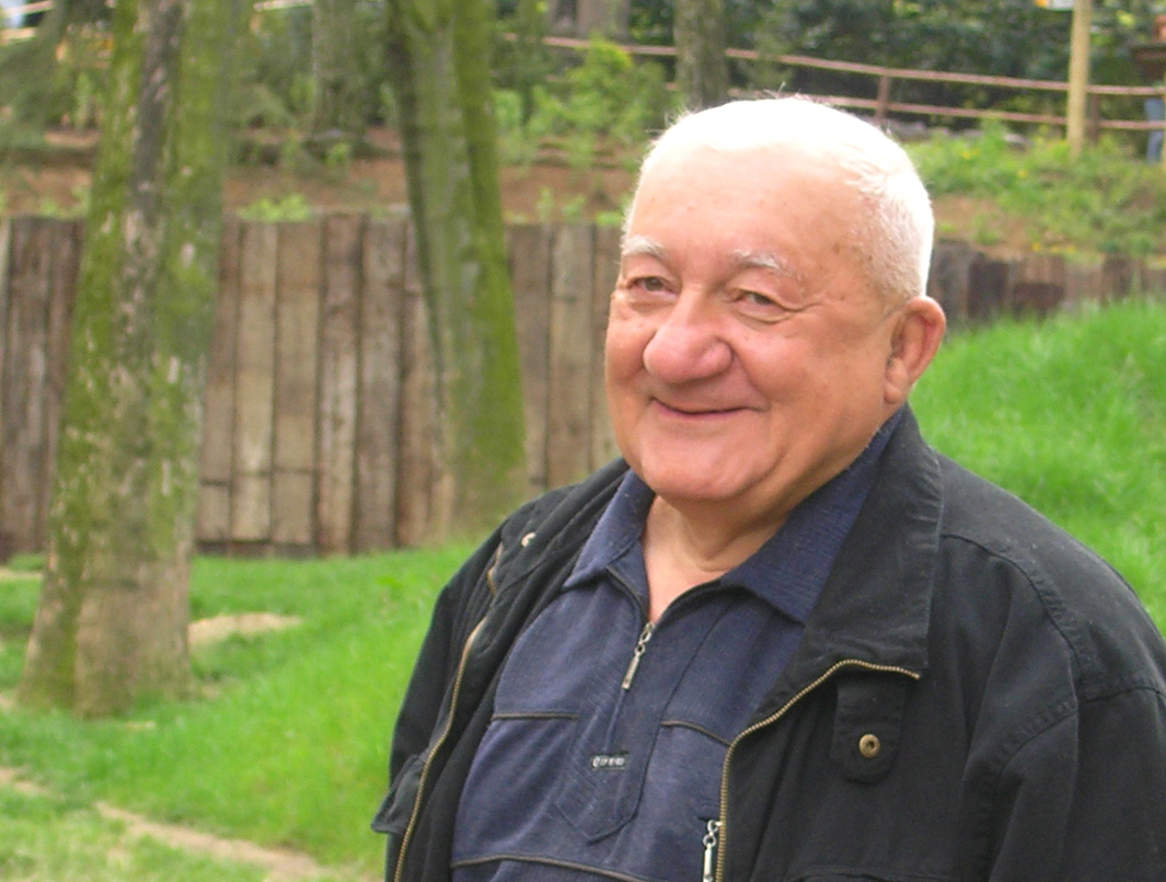 Zdeněk Srstka, Czech actor